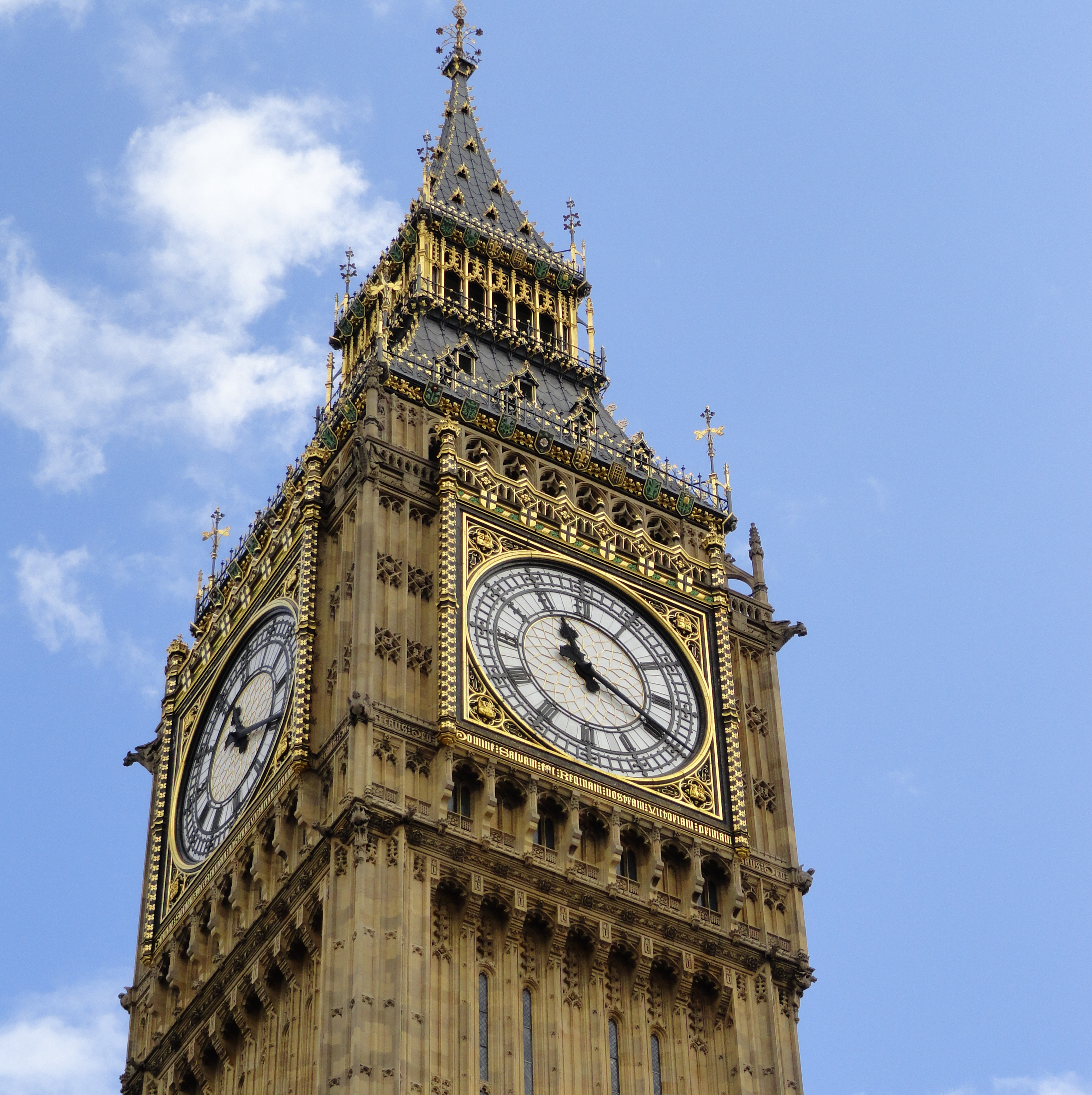 Big Ben Clock